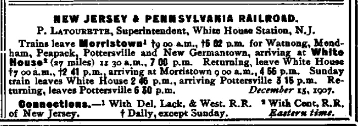 Entry for the New Jersey and Pennsylvania Railroad (aka Rockaway Valley Railroad) in the January 1910 Official Guide of the Railways of the United States